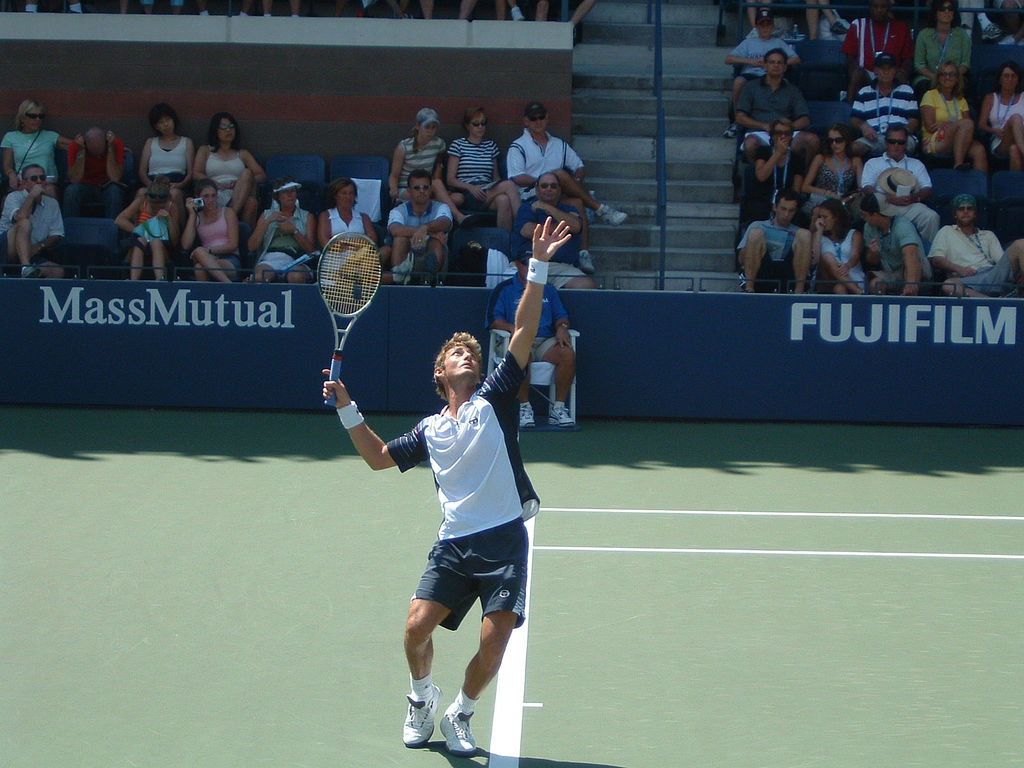 I took this photo at the US Open 2004 it is also available here on my flickr photo page Juan Carlos Ferrero serving at the US Open 2nd Round against Stefan Koubek August 2004